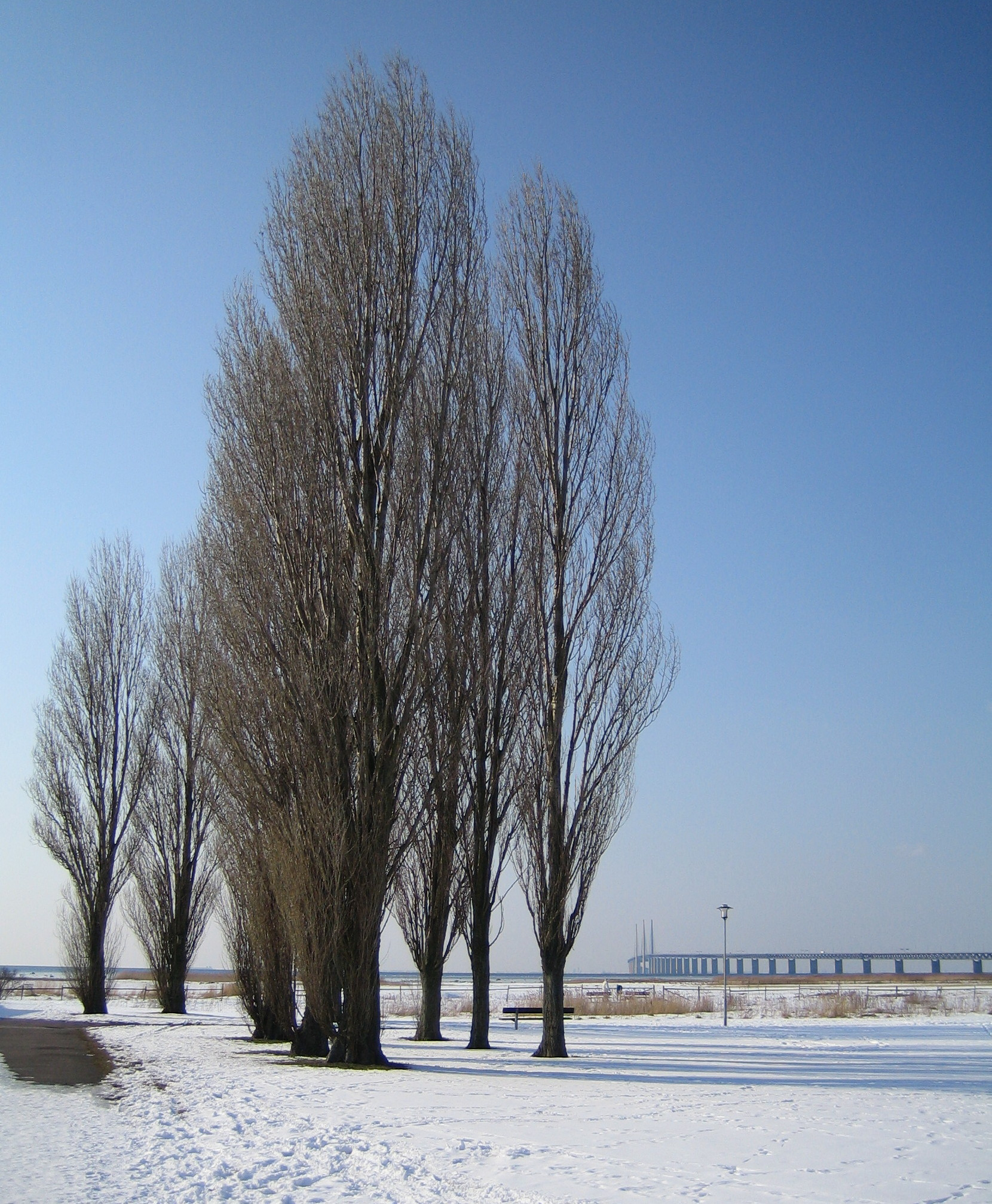 Bunkeflostrand in the south of Malmö, Sweden. The Oresund bridge in the background.